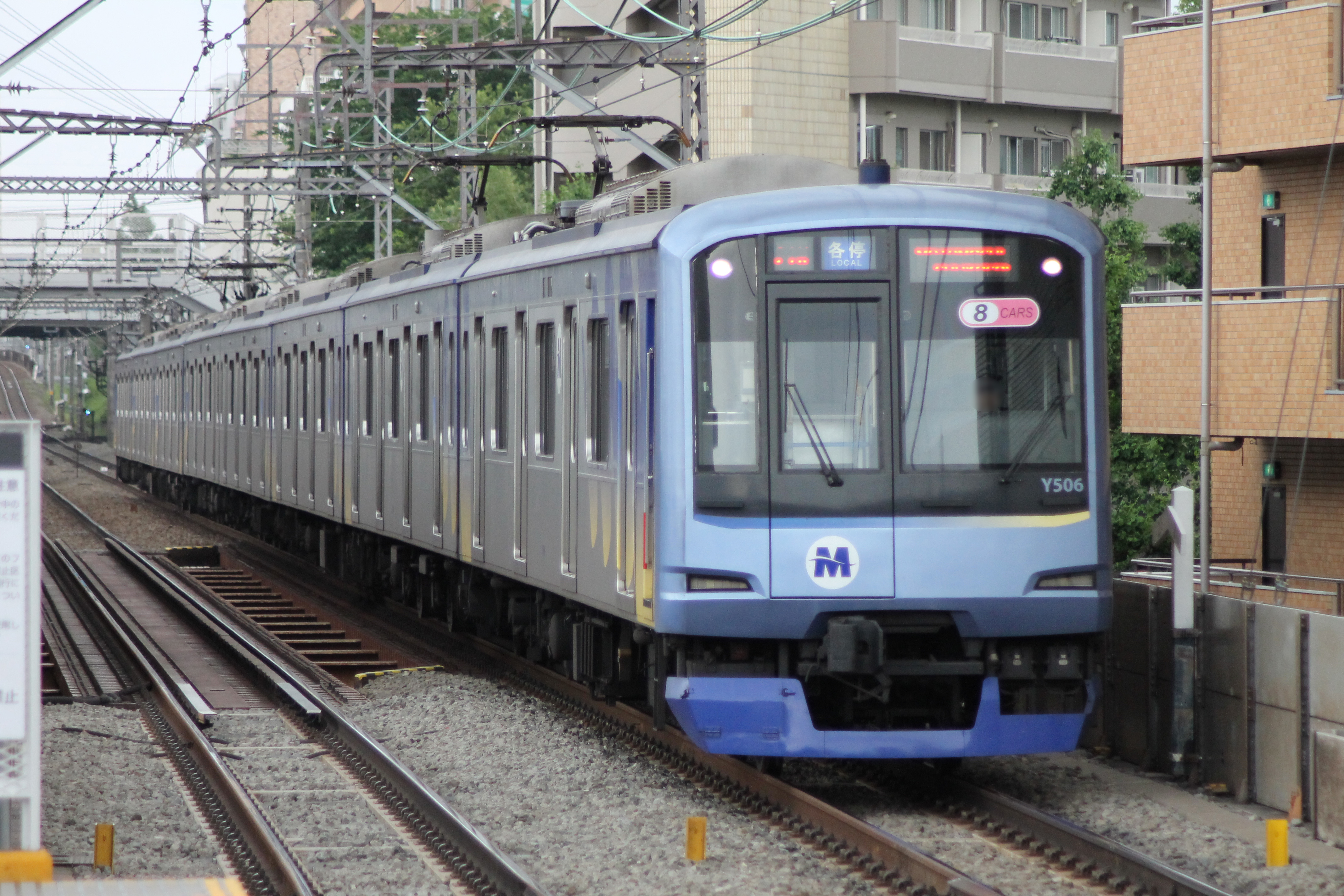 The Yokohama Minatomirai Railway Y500 series